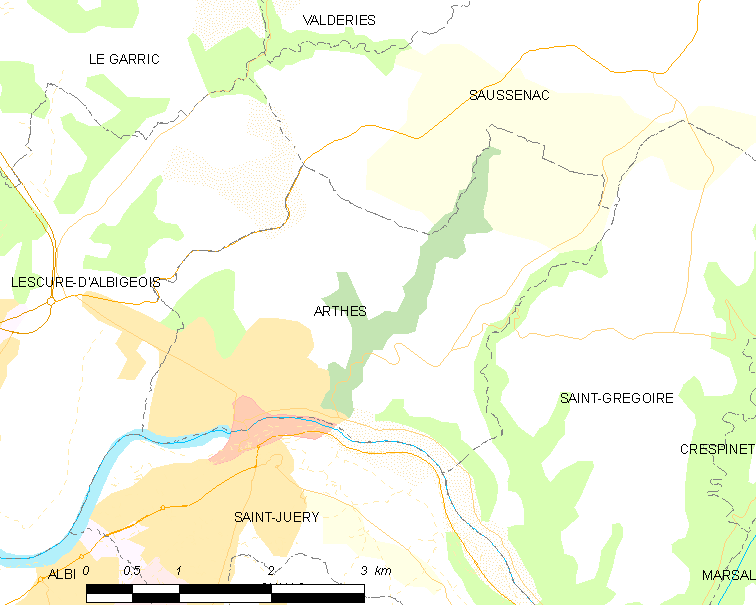 Map of French municipality Arthès